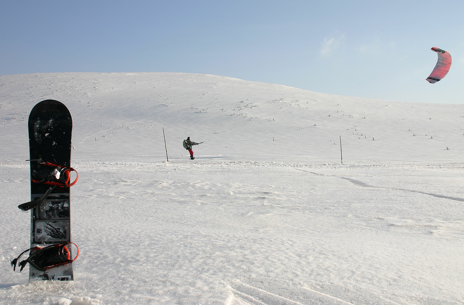 Sailing over snow.